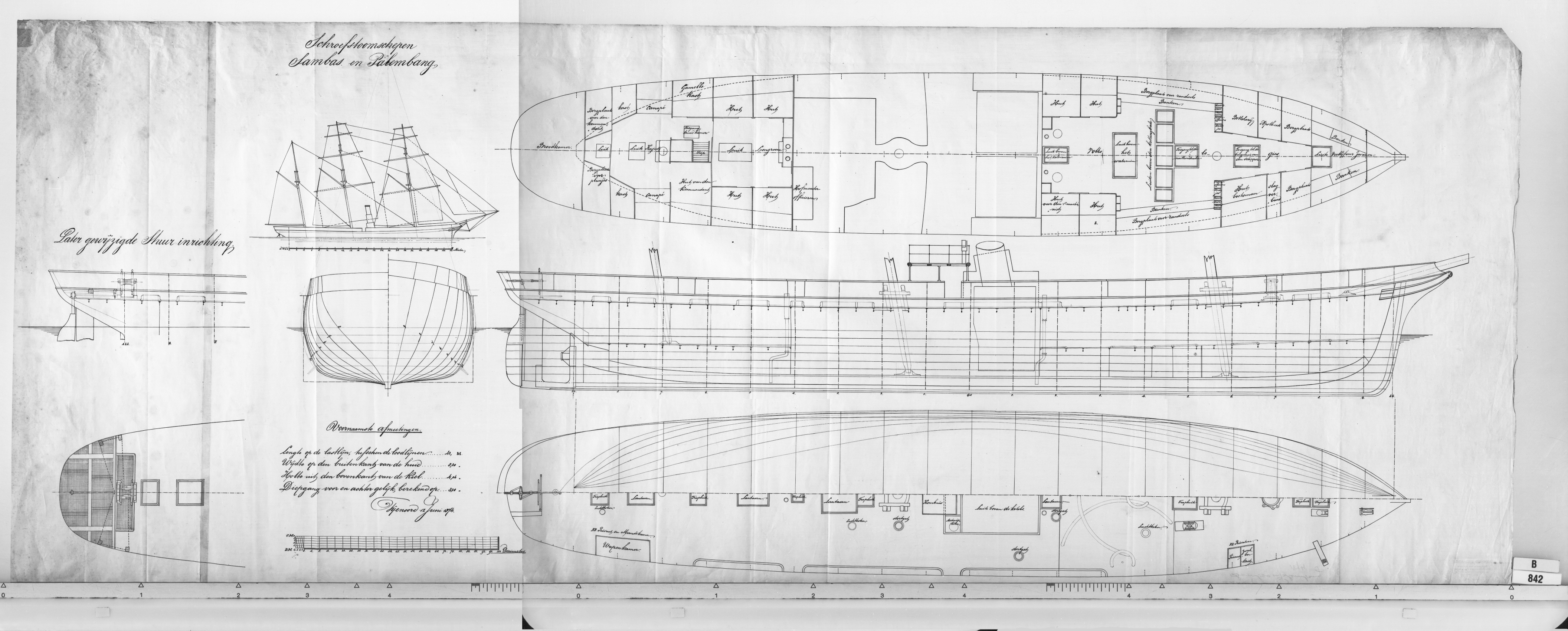 Design drawings for the sloops Sambas and Palembang dated: Fijenoord 12 June 1874. Has the dimensions of the ships.